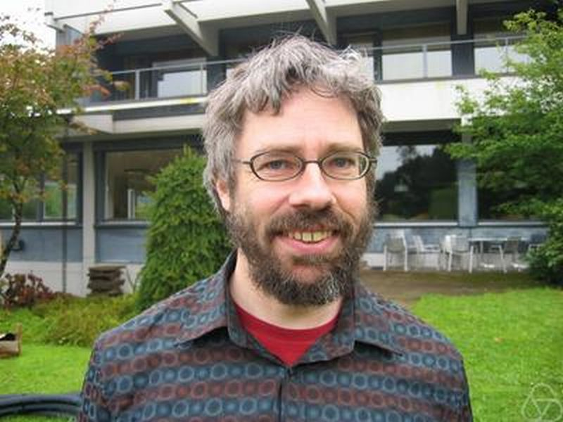 Jörg Winkelmann, Oberwolfach 2006